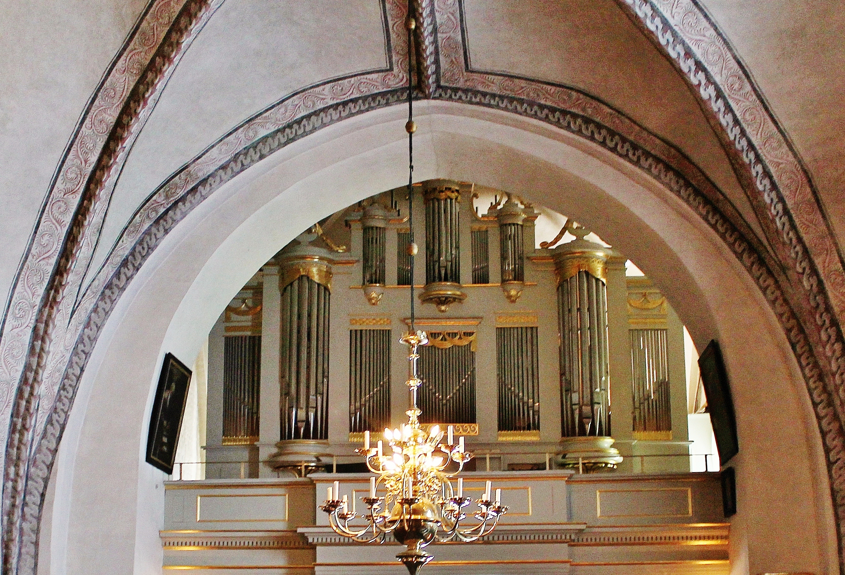 Holy Cross Church in Ronneby.Organ